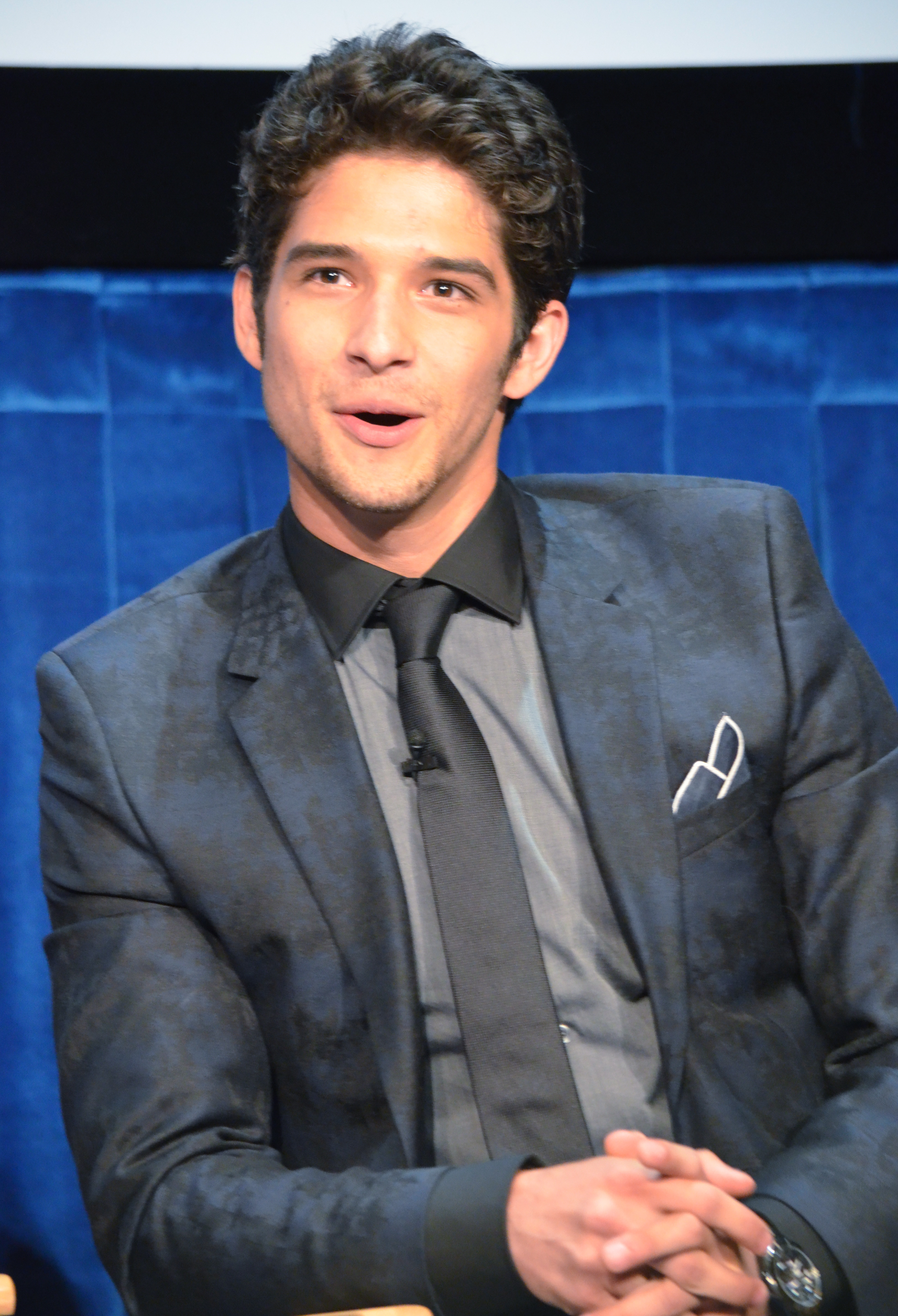 Tyler Posey On Stage @ Paley: Teen Wolf 2012.